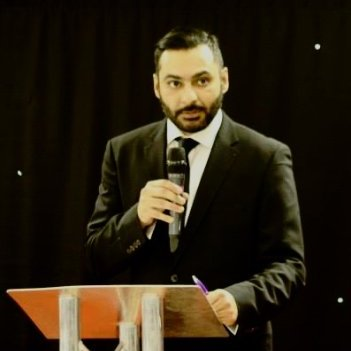 Abrar Hussain picture